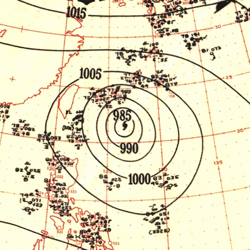 Surface weather analysis of Typhoon Ruth in 1951.